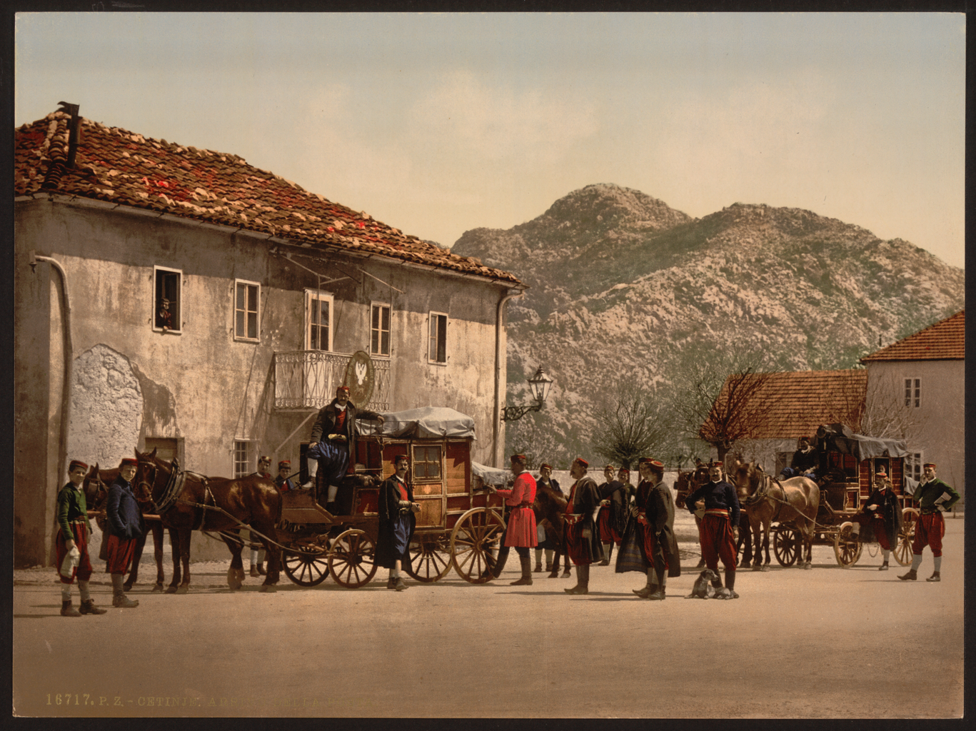 This late-19th century photochrome print is from “Views of Montenegro” in the catalog of the Detroit Publishing Company. It depicts a scene from Cetinje, the capital of Montenegro, an independent principality that separated from the Ottoman Empire in 1878. According to Baedeker’s Austria, Including Hungary, Transylvania, Dalmatia, and Bosnia (1900), Cetinje, a town of about 3,000 inhabitants, was a two-day excursion by mountainous road from the town of Catarro (present-day Kotor) on the Adriatic coast. The Detroit Photographic Company was launched as a photographic publishing firm in the late 1890s by Detroit businessman and publisher William A. Livingstone, Jr. and photographer and photo-publisher Edwin H. Husher. They obtained the exclusive rights to use the Swiss "Photochrom" process for converting black-and-white photographs into color images and printing them by photolithography. This process permitted the mass production of color postcards, prints, and albums for sale to the American market. The firm became the Detroit Publishing Company in 1905. Postal service; Stagecoaches